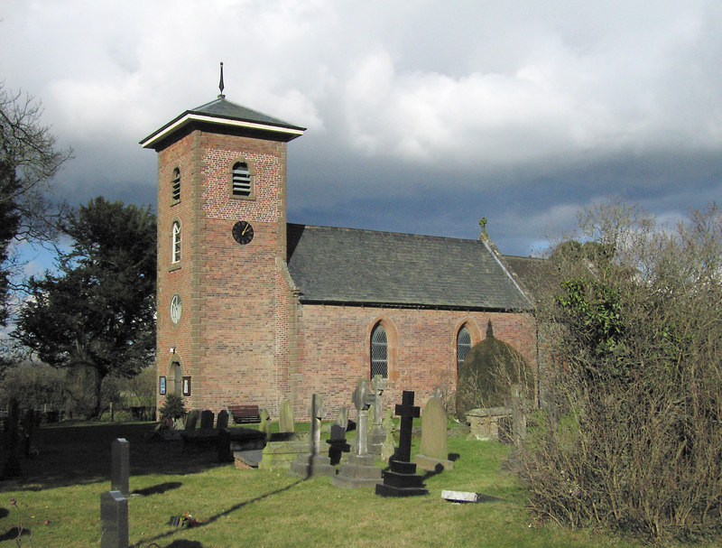 St. Michael's Church, Criggion, Powys This gives a full description of the church.